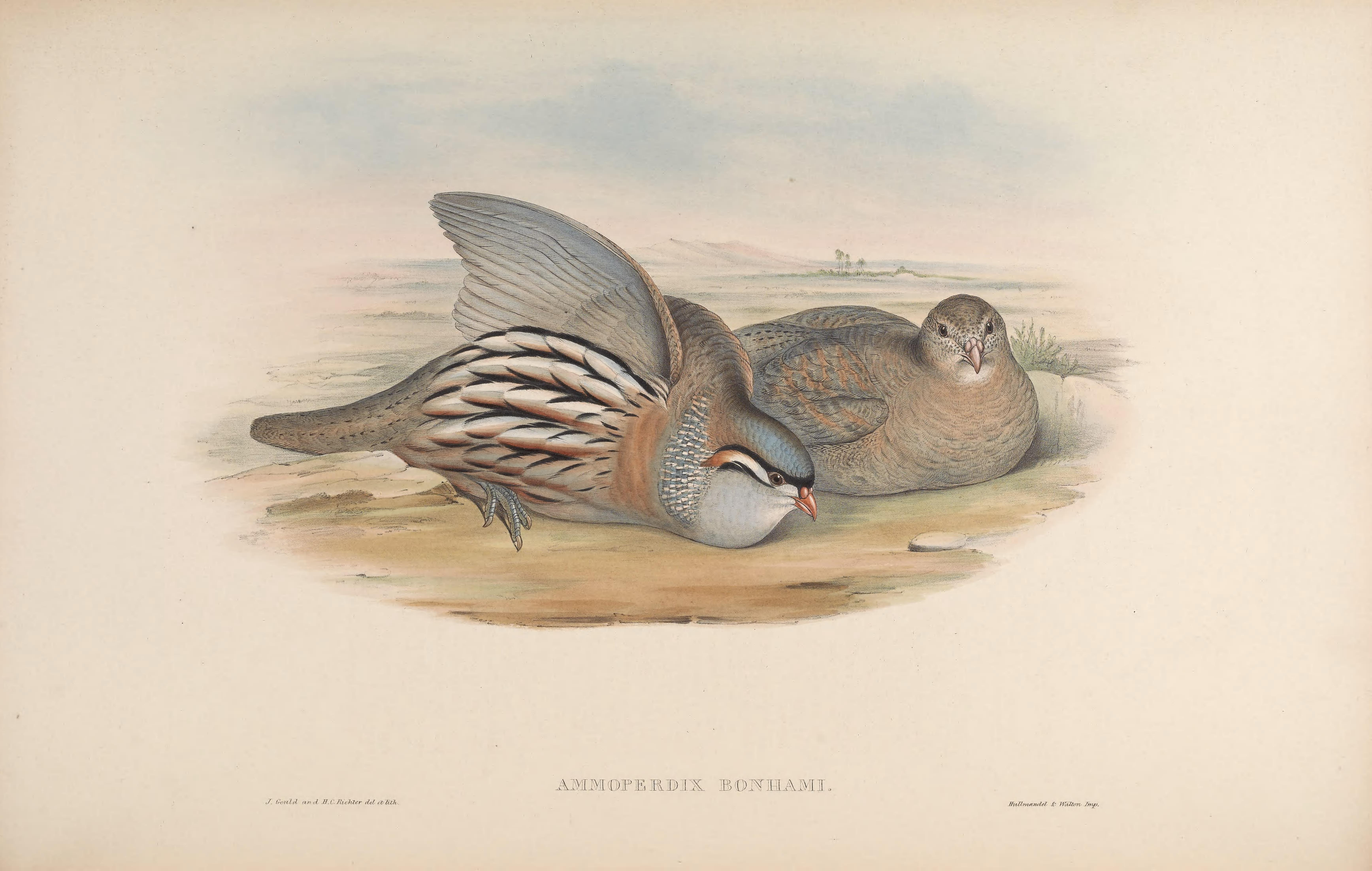 Ammoperdix bonhami = Ammoperdix griseogularis[1]